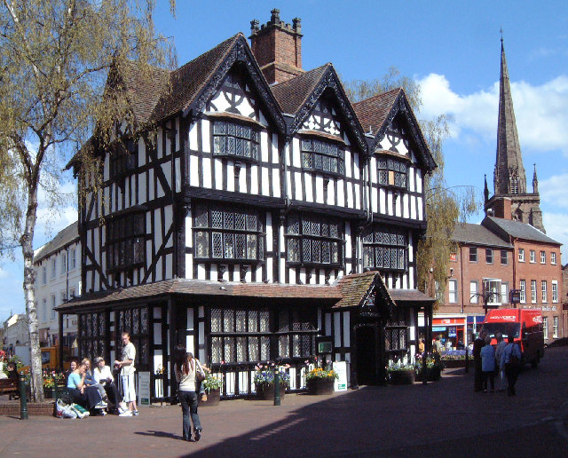 The Old House, High Town, Hereford. Originally part of Butchers Row, and now a museum, this tudor building stands in the middle of Hereford. St Peters church is to the right, and Commercial street leads off to the left.